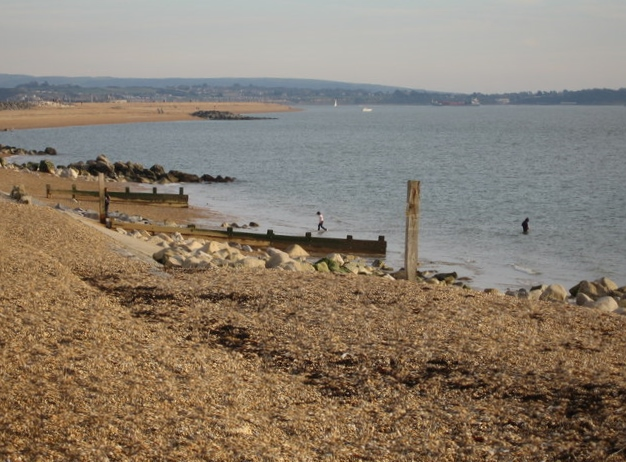 Groynes and a shingle beach Hopefully useful for any geography teacher checking in!